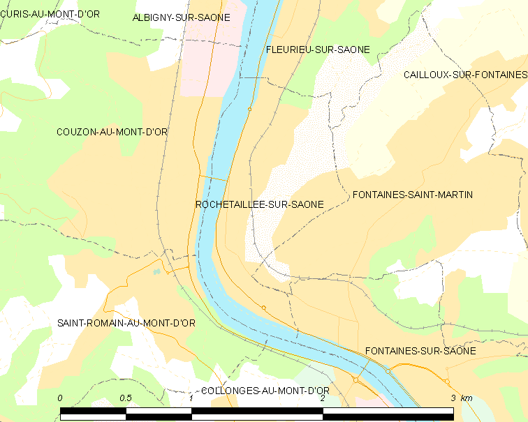 Map of French municipality